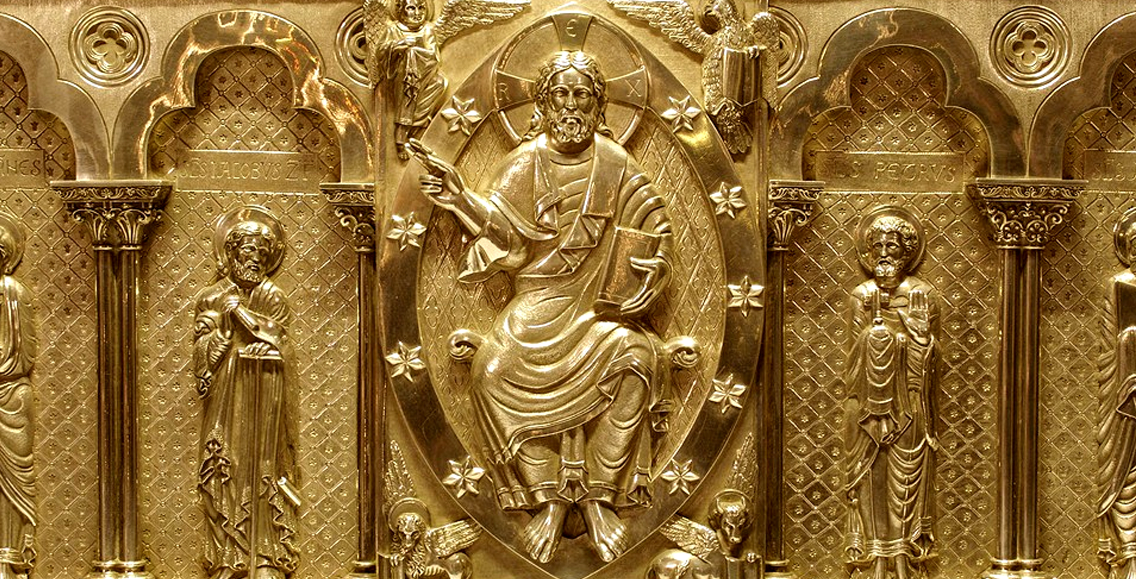 Saint James tomb, Cathedral of Santiago de Compostela, GaliciaGalego: Furna de Plata que presumiblemente contén os restos do apóstolo Santiago o Maior, realizada no século XIX, en cuxo centro aparece o Pantocrátor rodeado polos evanxelistas.